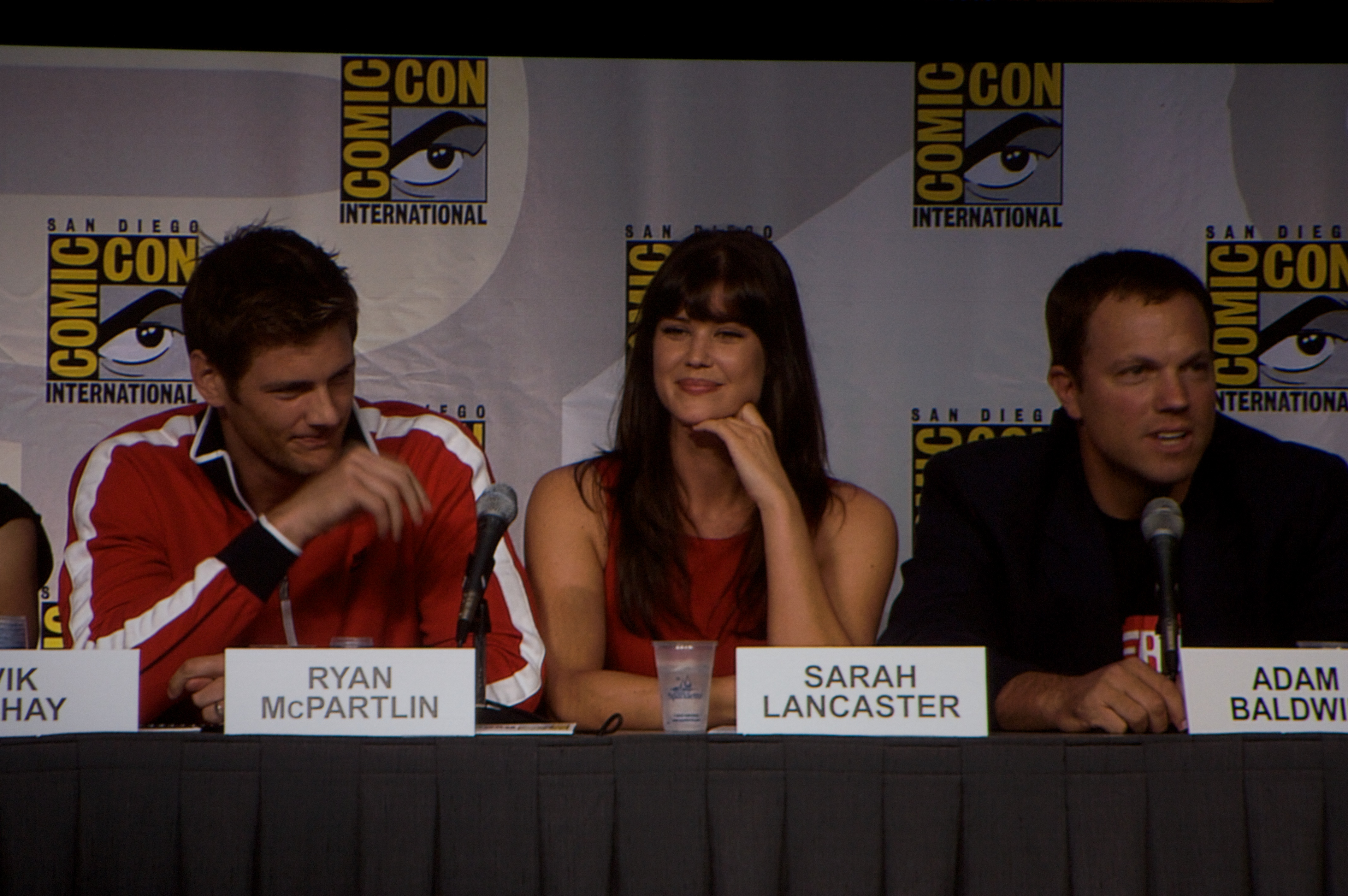 "Chuck" Panel. Actors Ryan McPartlin, Sarah Lancaster and Adam Baldwin at San Diego 2010 Comic-Con International.